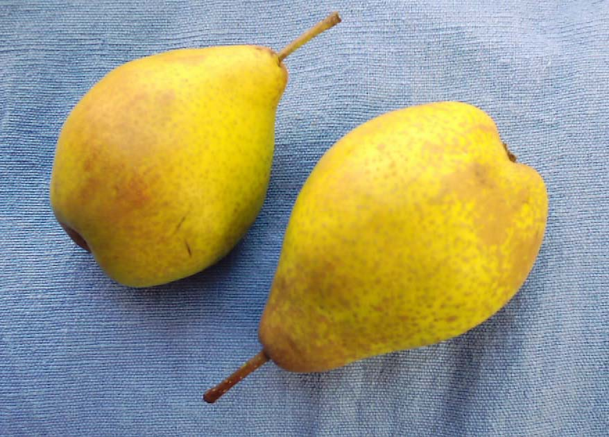 own photography taken on 19 october 2005, showing Bürgermeister Birne